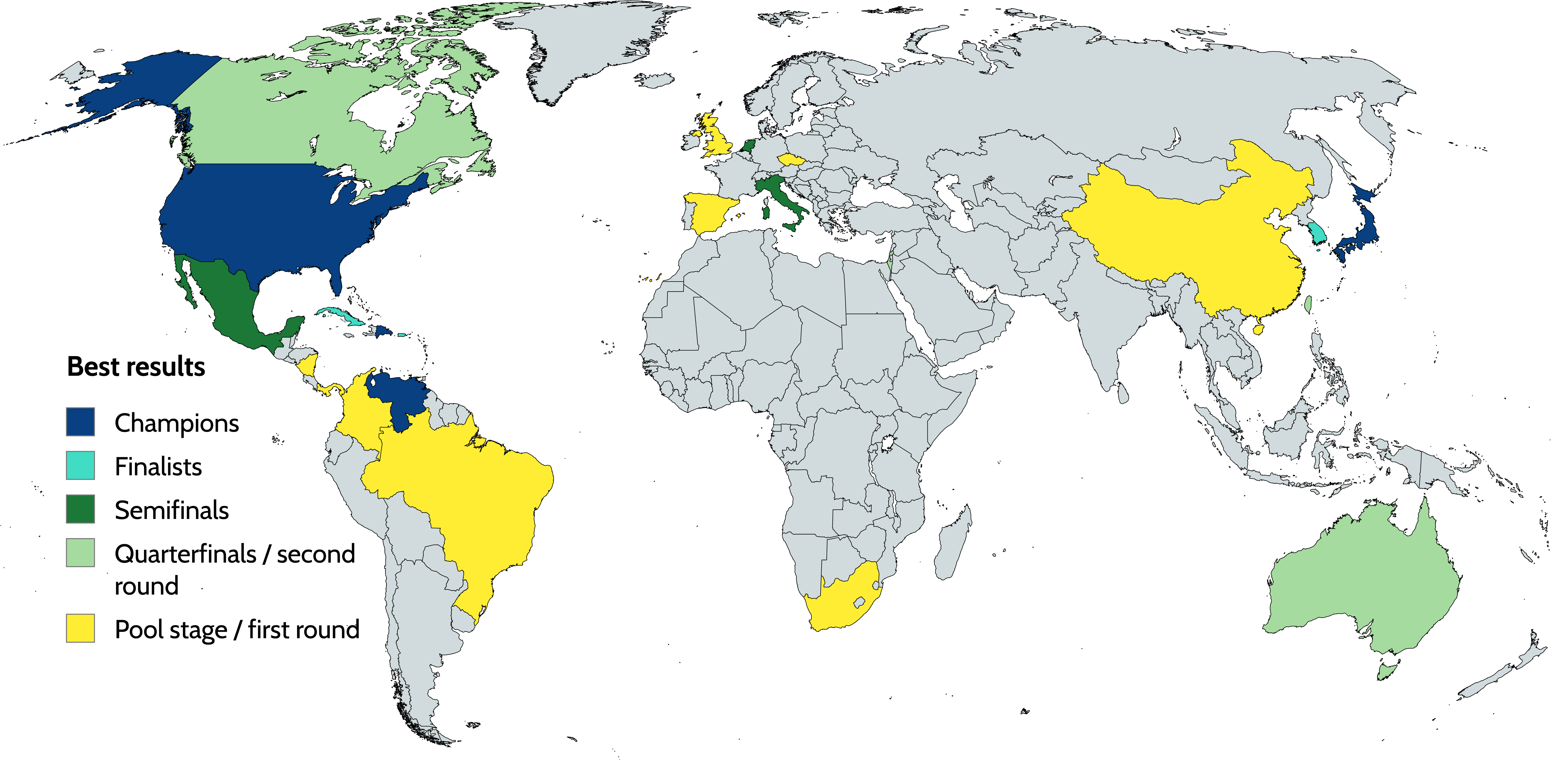 Describing every WBC participant's record in the tournament.